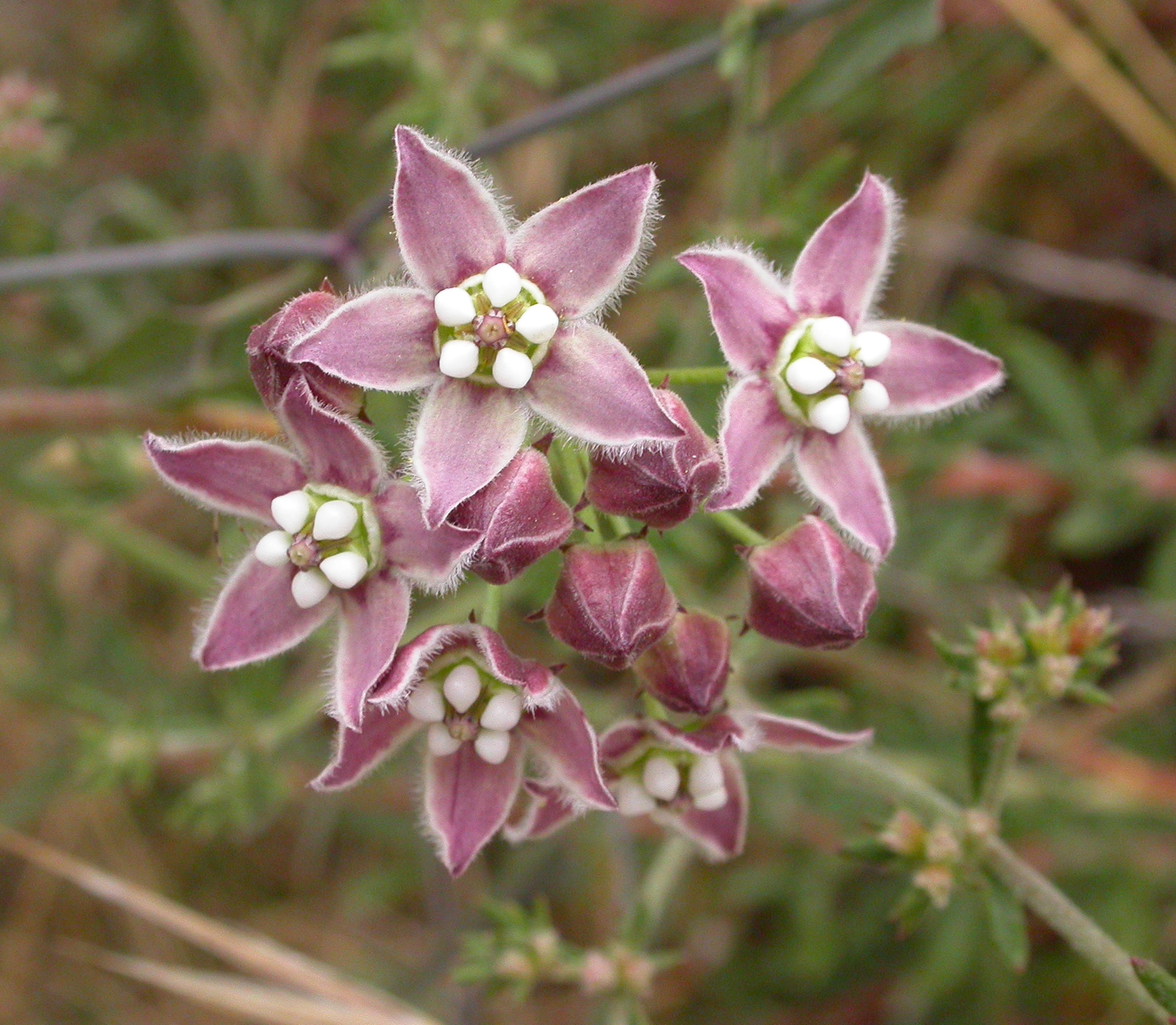 Photographed in Voorhis Ecological Reserve near Pomona, CA, USA.